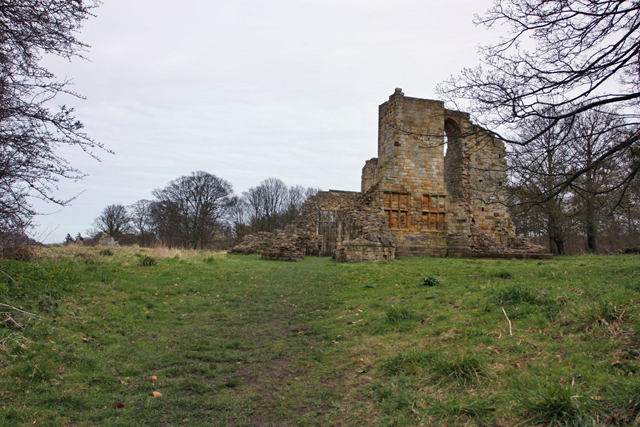 Mulgrave Castle The visitor information indicates that the ruins were "romanticised" in the 18th century. Keywords: Ruined castle.